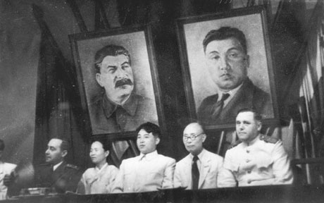 Kim Il-sung (centre) and Kim Tu-bong (second from right) at the joint meeting of the New People's Party and the Communist Party of Korea